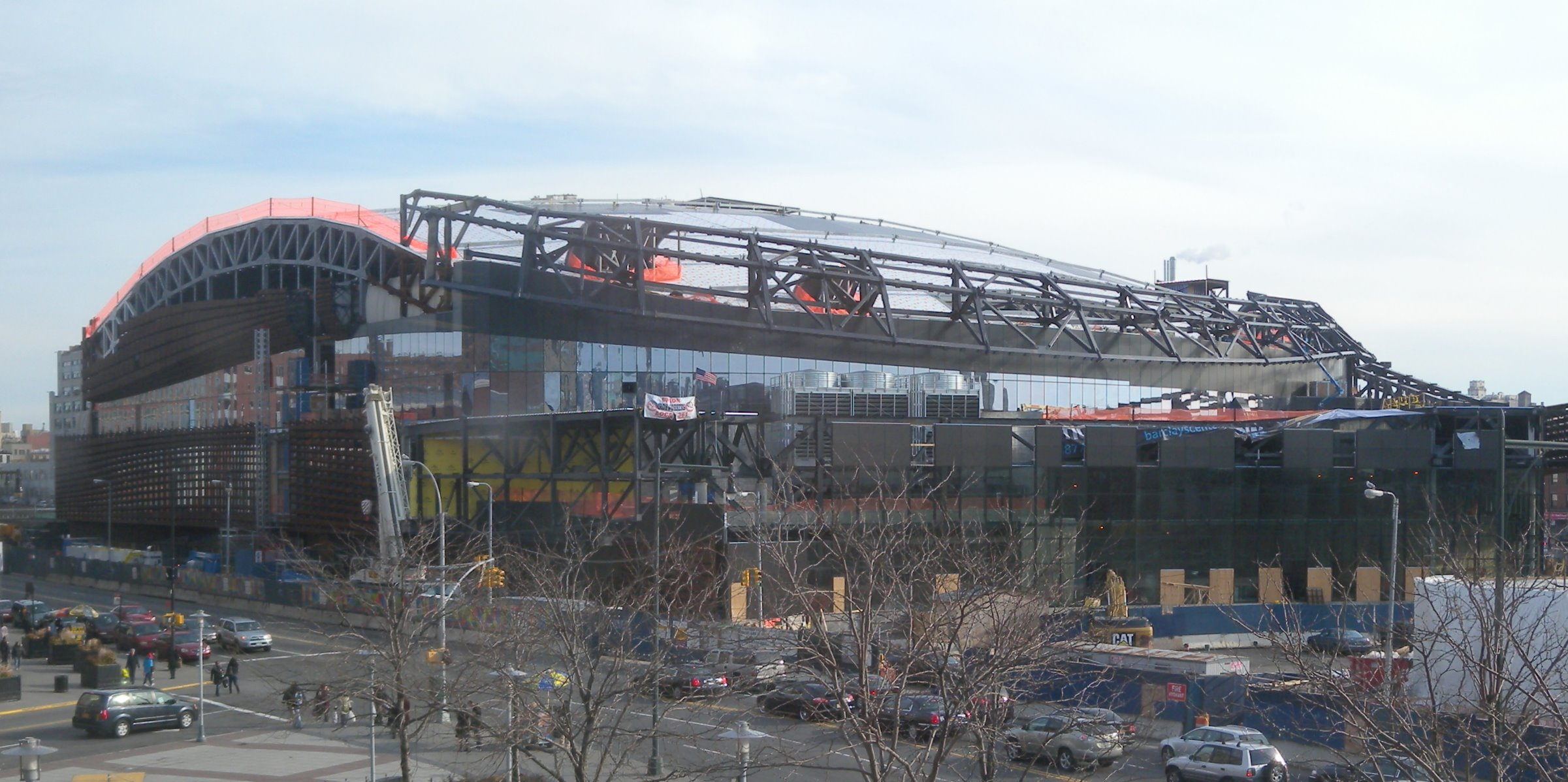 Looking southeast from Target on a sunny afternoon at new stadium.